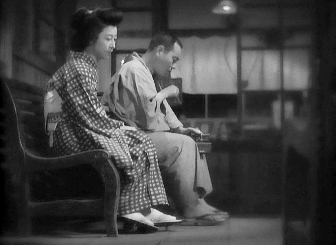 Emiko Yagumo and Takeshi Sakamoto in A Story of Floating Weeds (浮草物語) directed by Yasujirō Ozu - 1934